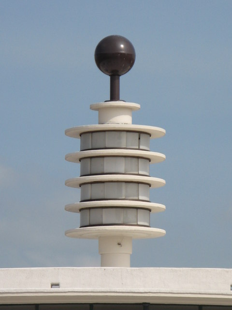 "Spire" on Southgate tube station. The location of this "spire" is shown in 1400299.